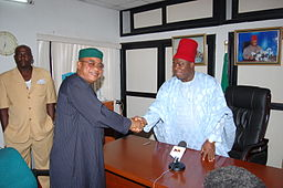 Ambassador Ogbuewu submits his gubernatorial expression form then meets with APGA chairman, Chief Umeh